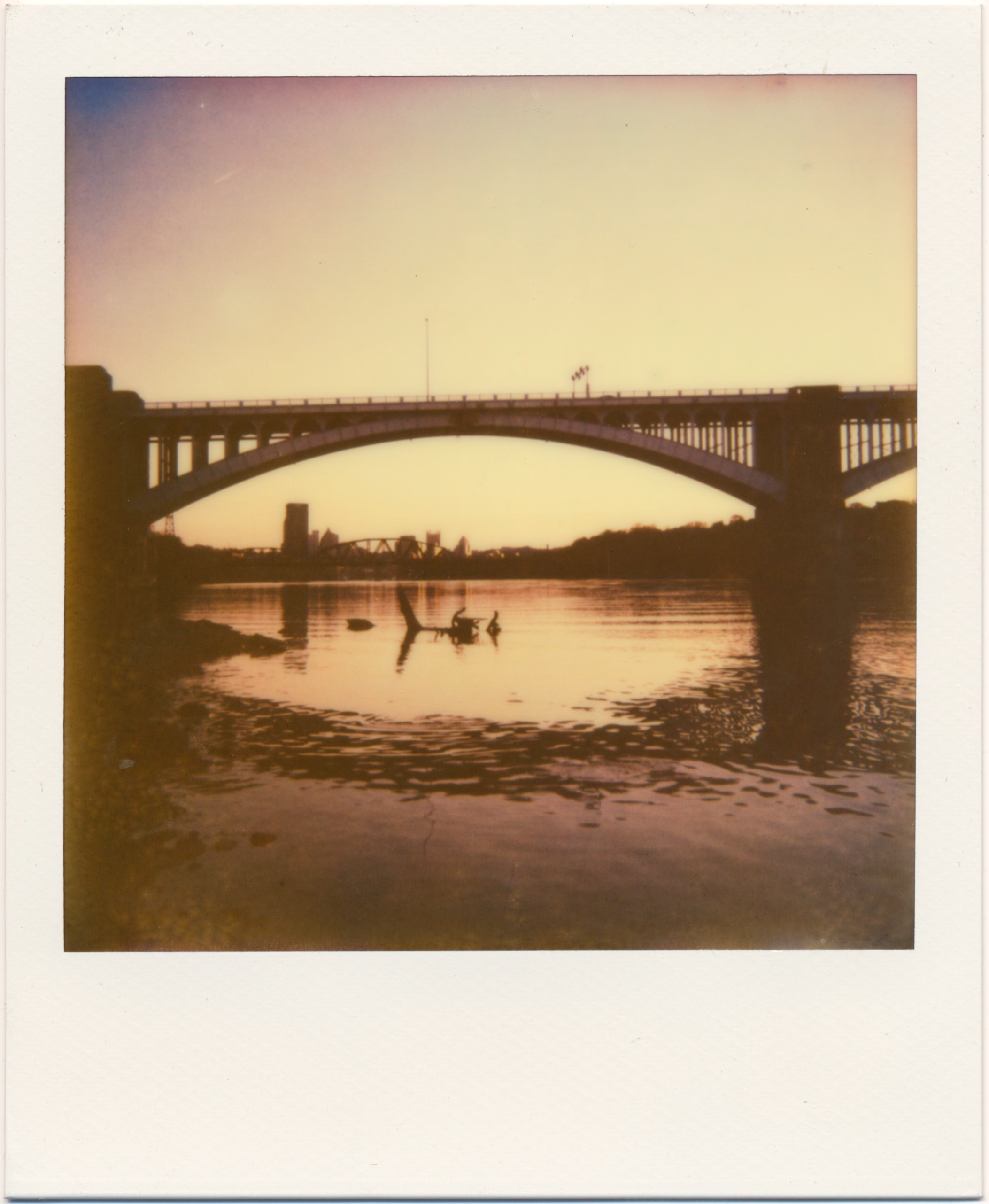 Thirty-First Street Bridge, Pittsburgh, Allegheny County, Pennsylvania, -- under the bridge (impossible polaroid)